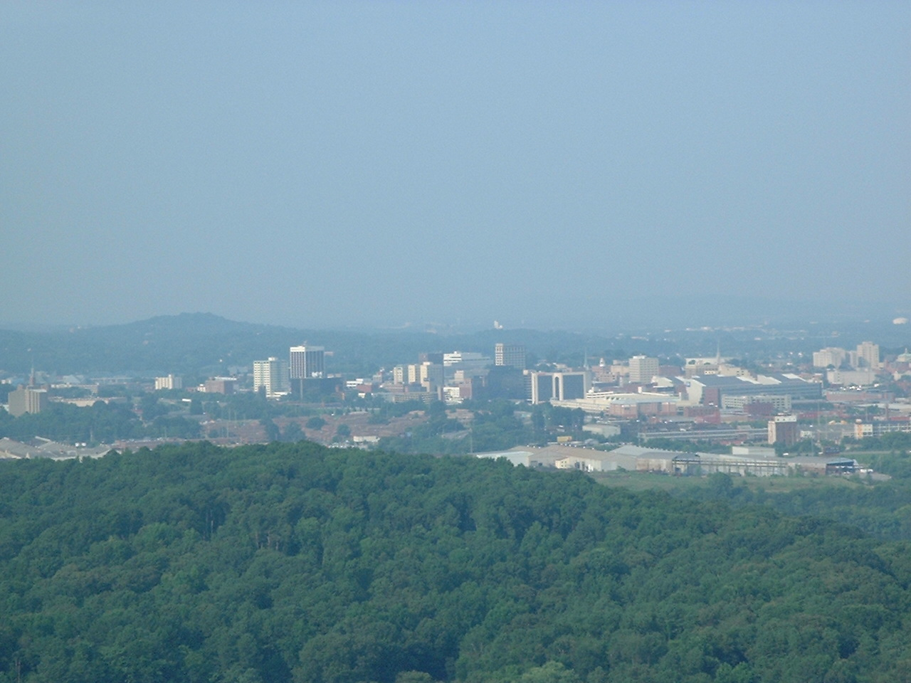 The Chattanooga skyline